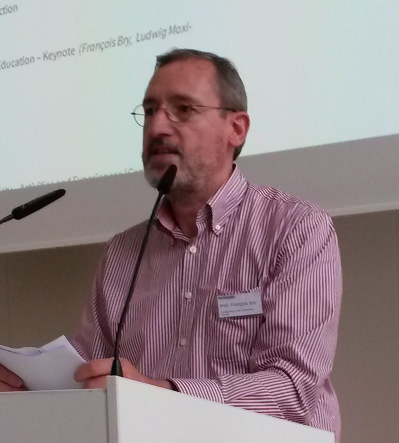 François Bry at Open Science Days 2014